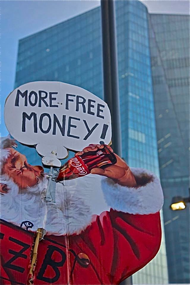 Blockupy Demo Nov. 22nd 2014